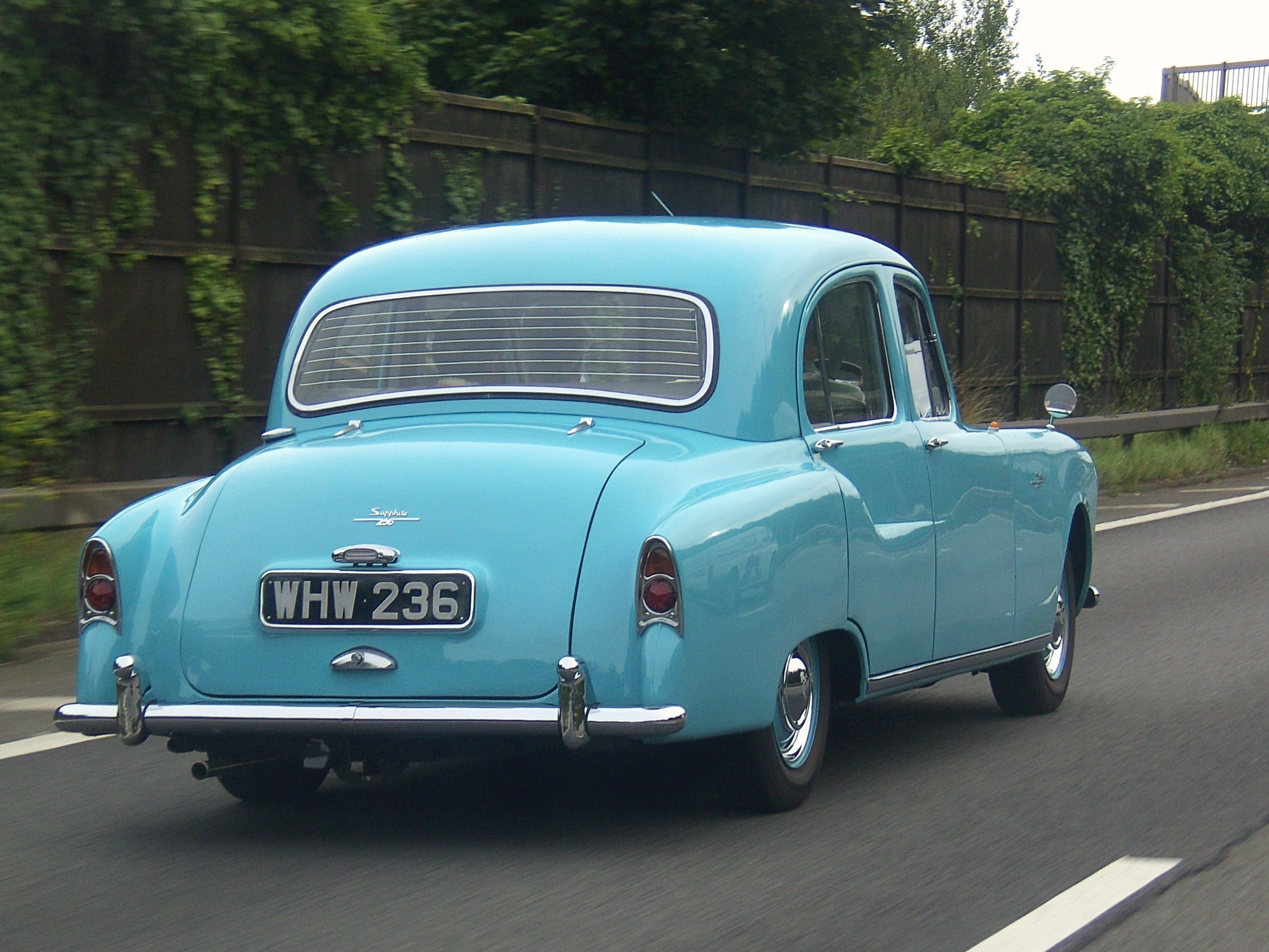 Armstrong Siddeley Sapphire 236 (DVLA) first registered 1 March 1956 (St David's Day) 2309cc Photographed on a motorway near Cardiff in 2010 said to have covered only 71,000 miles from new in January 1956